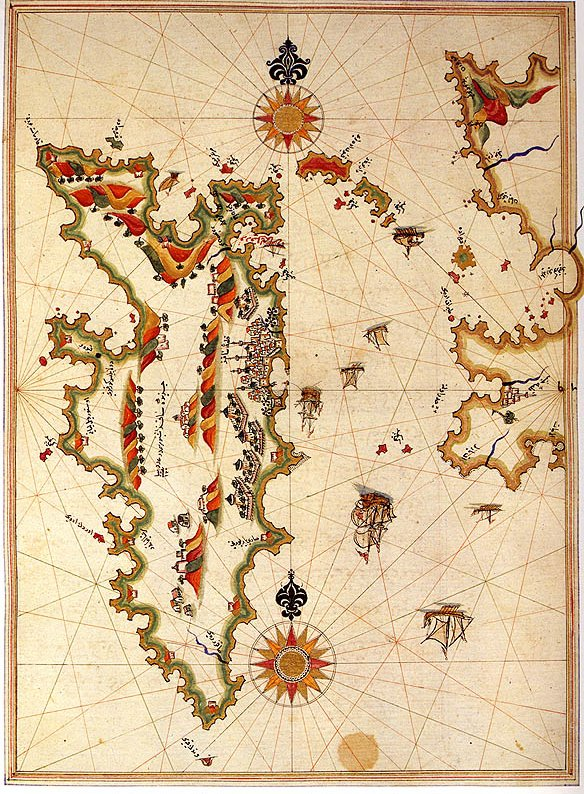 Island of Chios in Greece on the Kitab-ı Bahriye (Book of Navigation) of Piri Reis